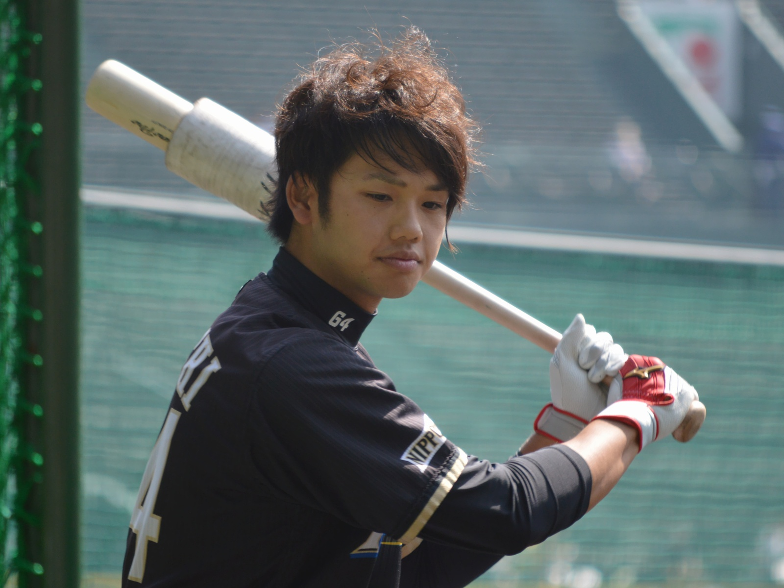 NF-Yuya-Taniguchi20130309